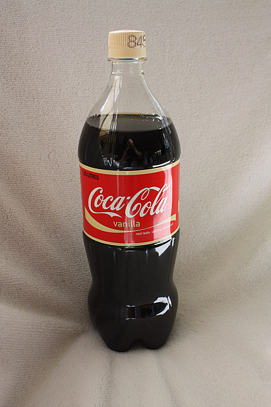 Australian Vanilla Coke 2008